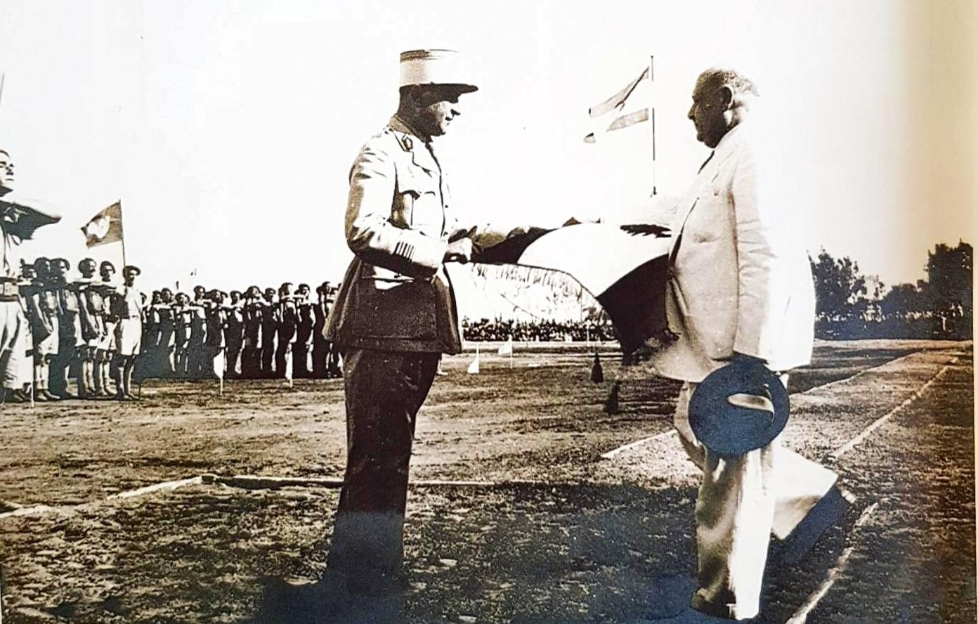 Lebanese president Bechara El Khoury handing in the Lebanese flag to the army general Fuad Chehab, in celebration of the state of Lebanon receiving the command of its first military unite, on 17 June 1944.